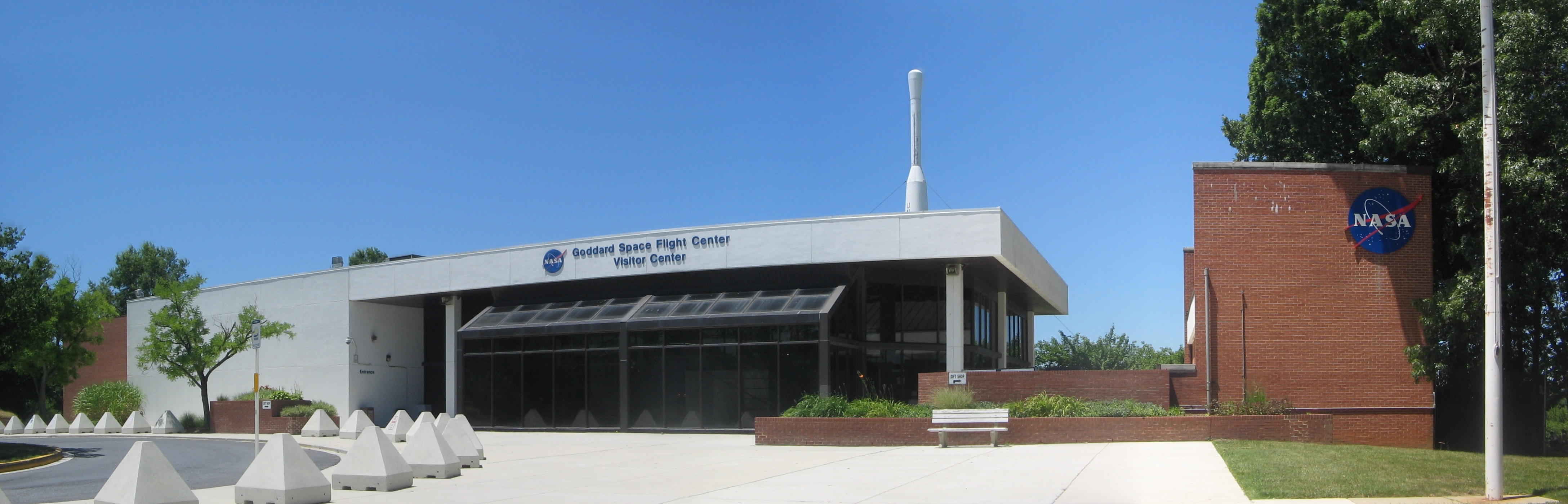 Panoramic photo of the Visitor's Center at NASA's Goddard Space Flight Center in Green Belt, Maryland, USA.